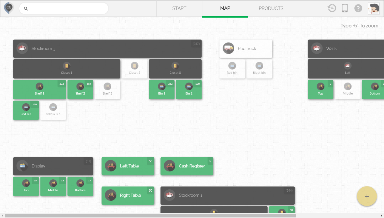 As business move away from pen and paper processes to automated solutions, visibility becomes a key factor in inventory management success.